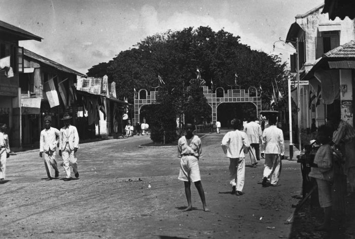 Welcome gate in Sibolga's Chinese quarter